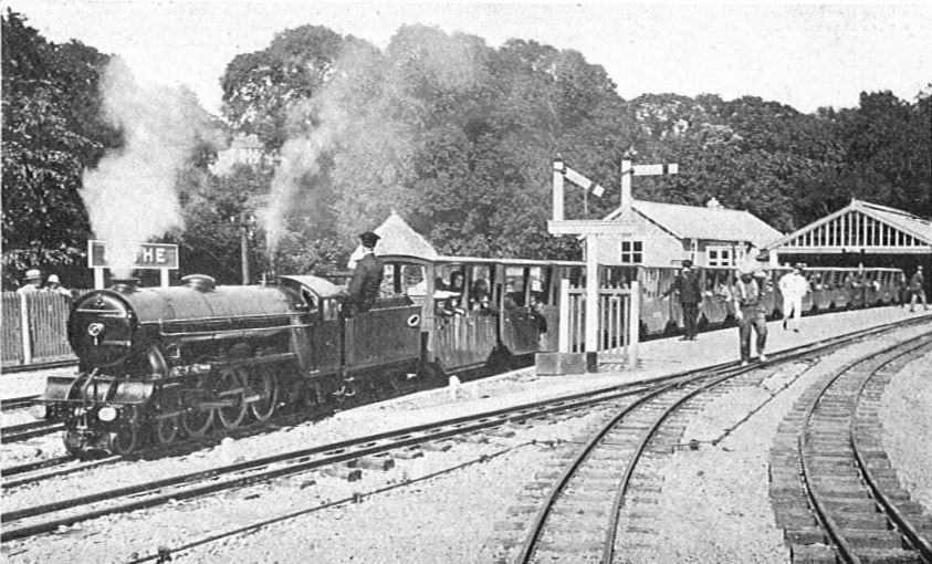 Leaving Hythe for Dungeness: Romney, Hythe and Dymchurch Rly. (15-in Gauge) Photo: RH&DR